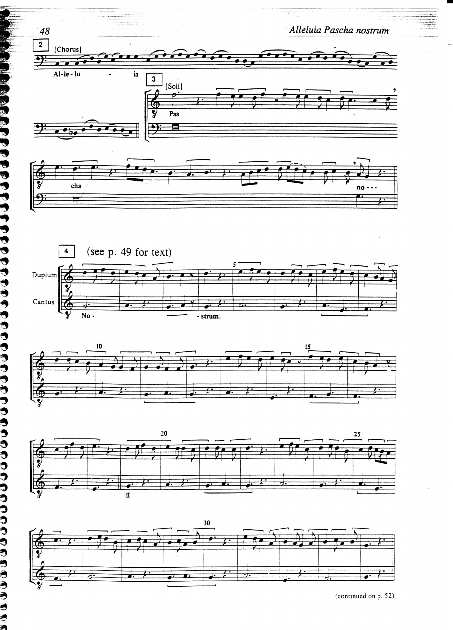 Score 2 of Alleluia Pascha nostrum Leonin